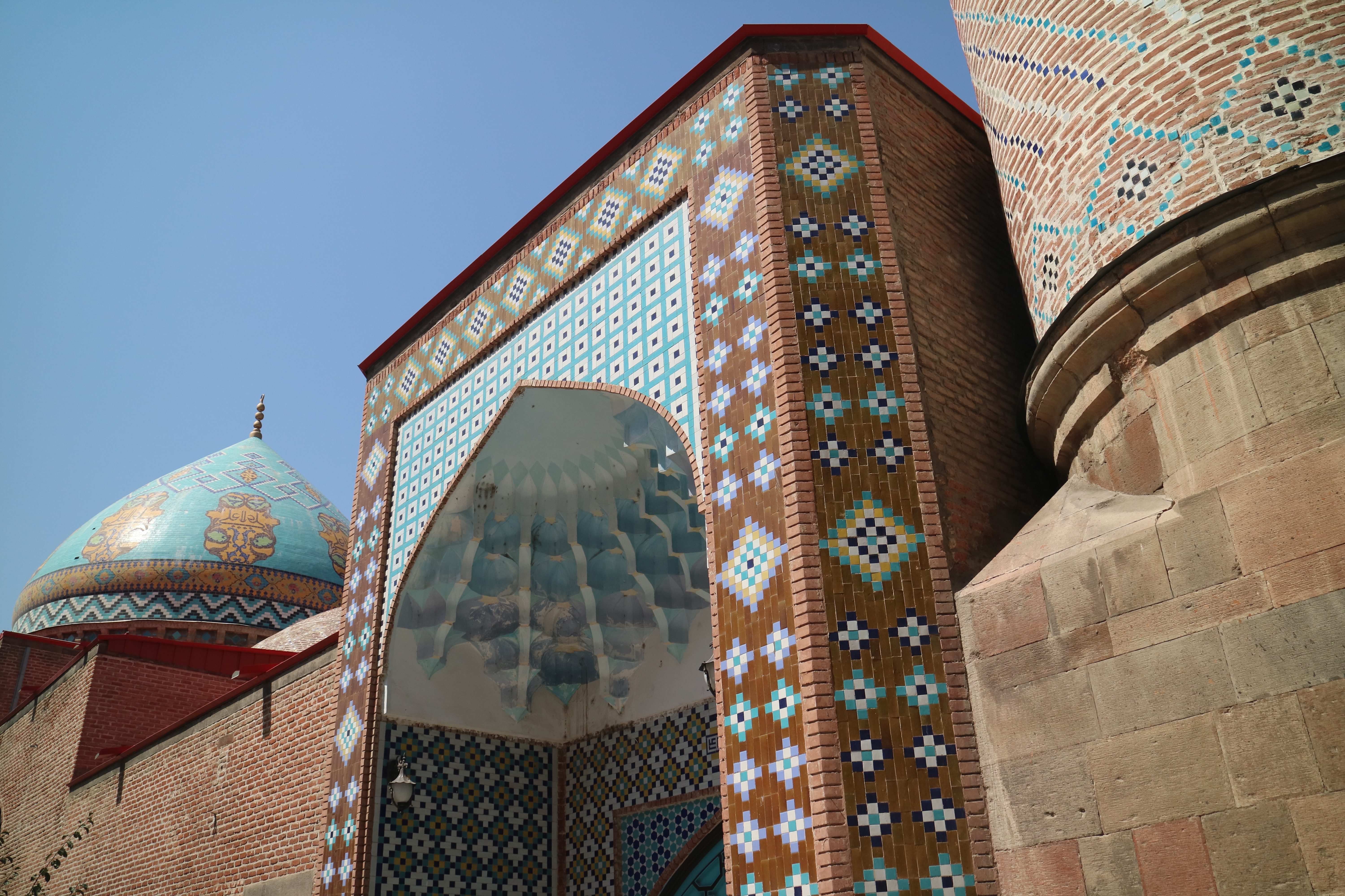 Side view of the Blue Mosque, Yerevan, Armenia 6/150